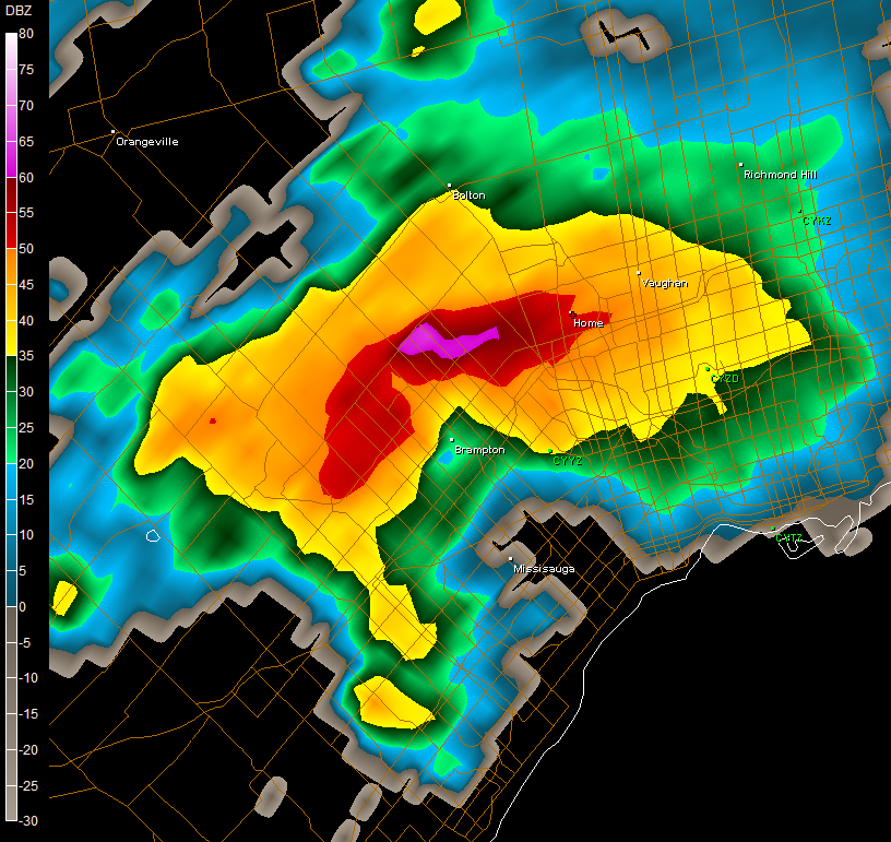 A high precipitation supercell thunderstorm observed by the National Weather Service's NEXRAD radar station in Buffalo, NY. The supercell thunderstorm itself is visible striking Toronto, Ontario and exhibiting a classic kidney bean shape suggesting the presence of a strong mesocyclone. The higher reflectivity as denoted by the pink coloration indicates the presence of large hail as well as extremely intense rainfall rates likely exceeding several centimeters of liquid per hour. The image was taken at 19:03 UTC and composed by Vaughan Weather ( For more images and other details visit